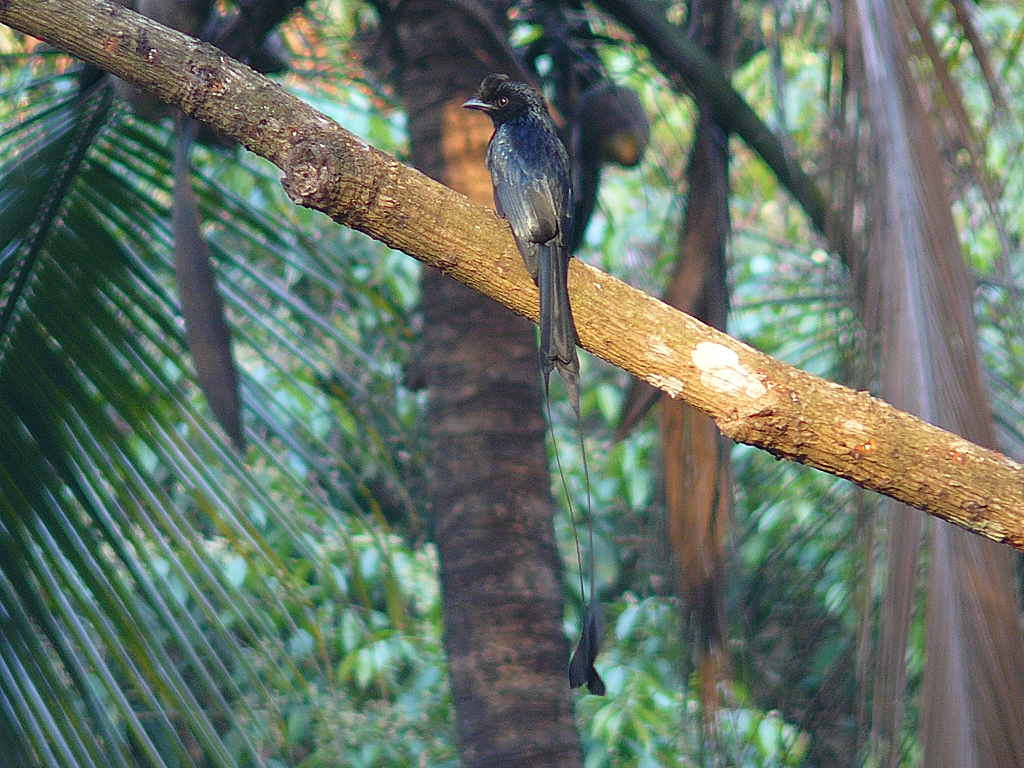 Clicked in the evening. The light was poor except for the bird that was sitting where the fading sunlight hit it fully. The blue-black plumage and prominent backward curving crest can be seen clearly in this photo. The bird is named after its wire-like tail extensions that also can be seen clearly. A confirmed exhibitionist that noisily announces its presence often mimicing cats meows or the calls of other birds. A very bold and aggressive bird that is known to take on much larger birds.